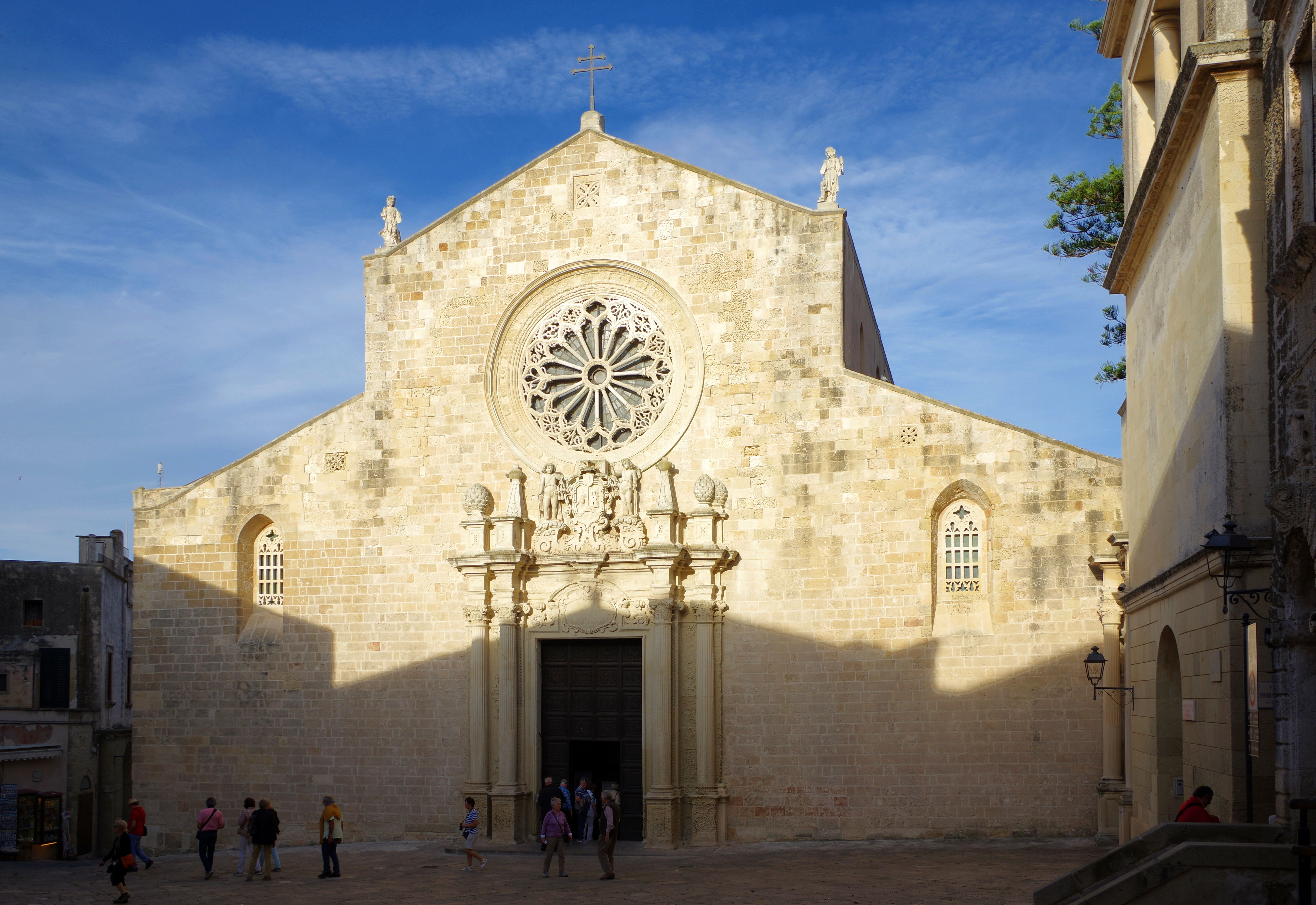 Italy, Otranto, Cathedral Santa Maria Annunziata